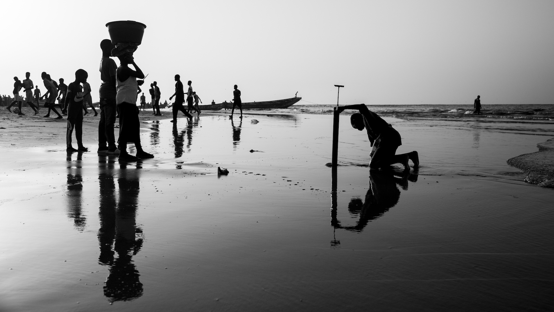 Pêcheur d'arénicoles. Pêche traditionnelle à Tonghor, Yoff village, Dakar, Sénégal This is an image of "African people at work" from Senegal